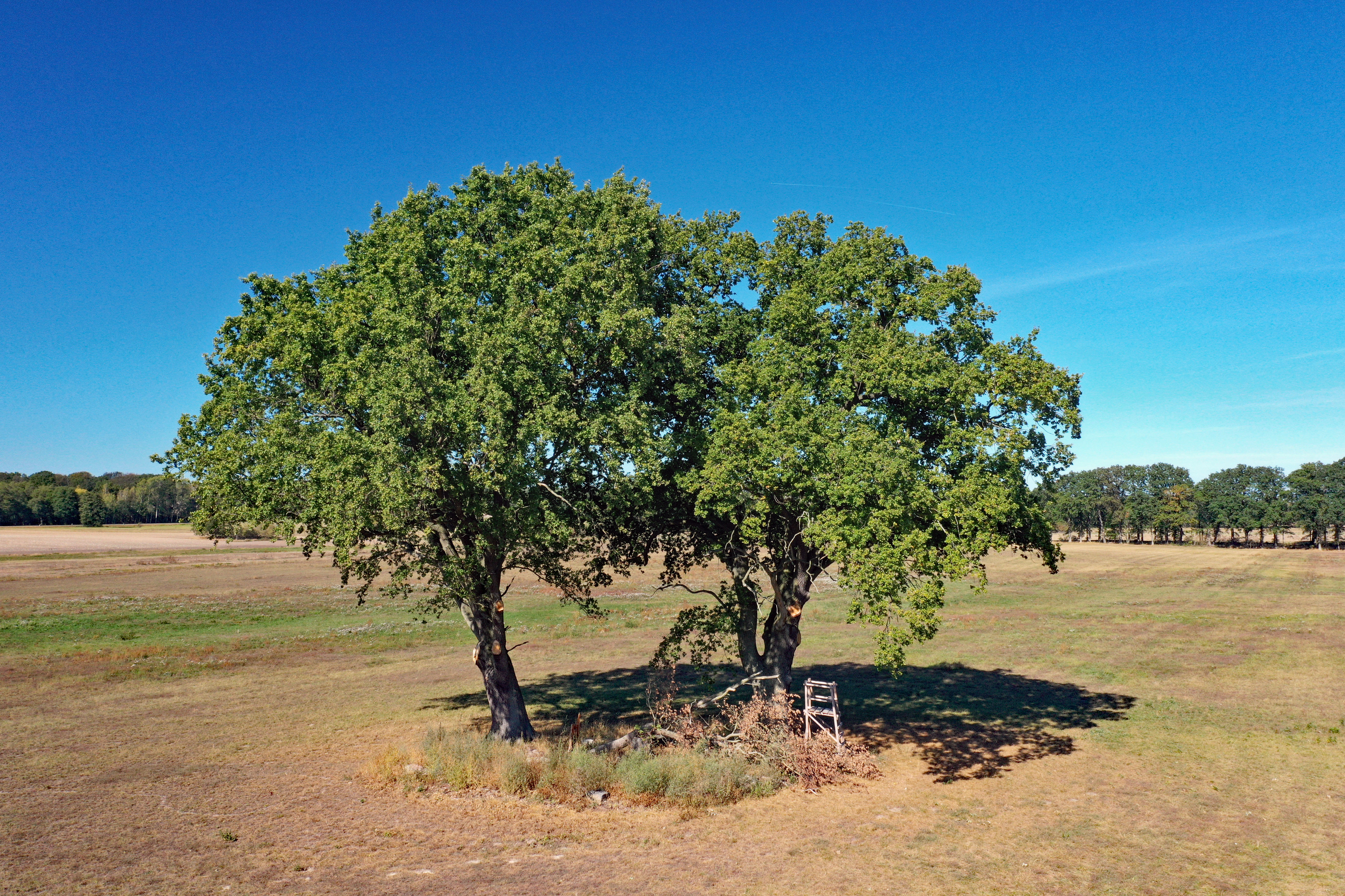 Megalithic in Altmark (Saxony-Anhalt, Germany) Mehmke 3